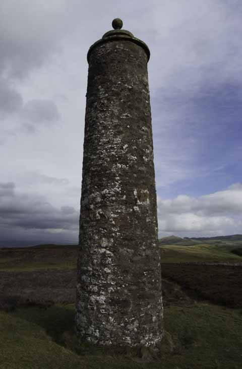 The MacKenzie Monument (Privys Prap) was built in the 1770s by landowner James Stuart-MacKenzie to indulge in his great love of astronomy. The Monument was used to align his equipment - it being due south of his observatory in the grounds of Belmont Castle at Meigle.